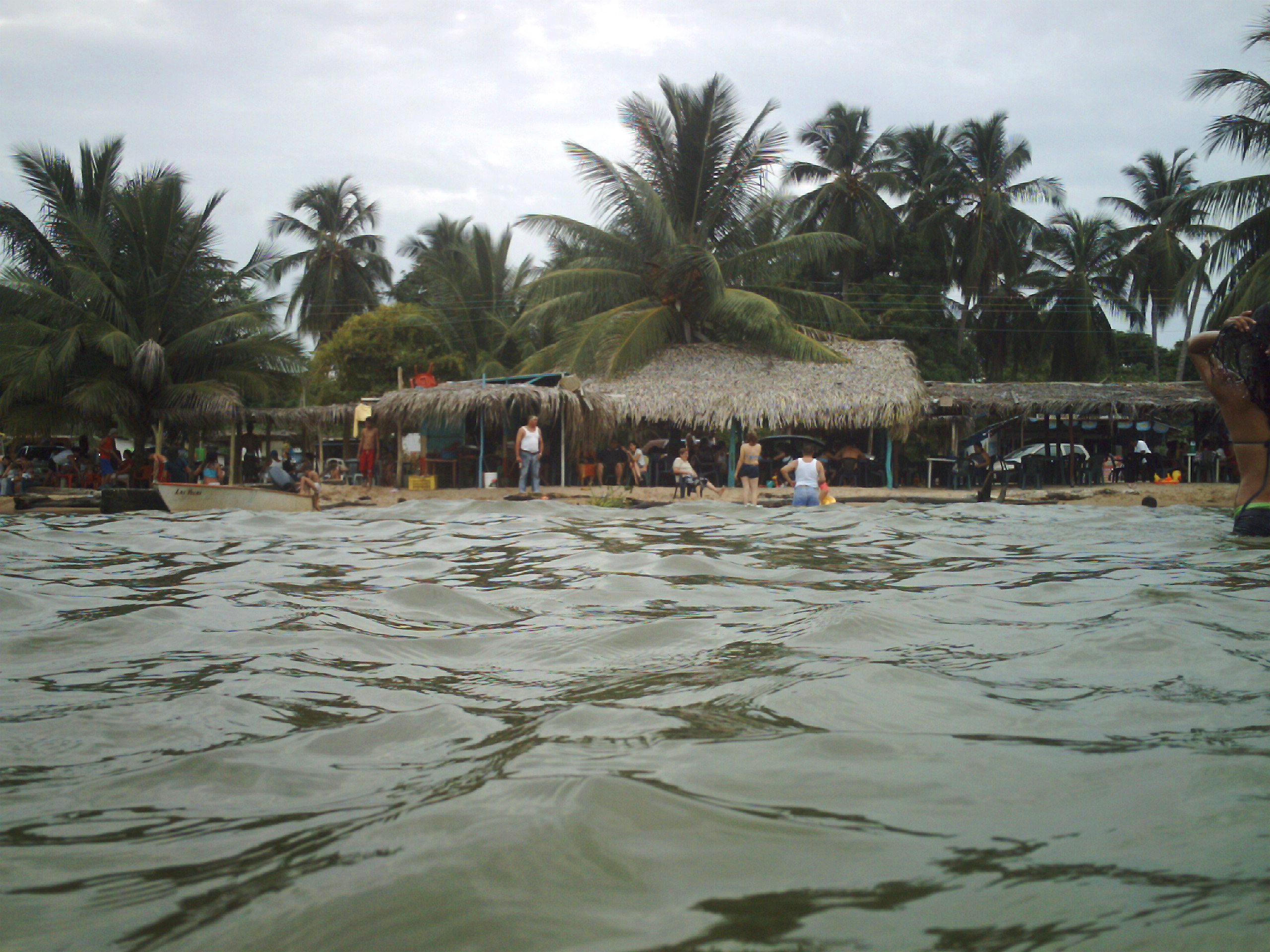 Maracaibo lake from Bobure.